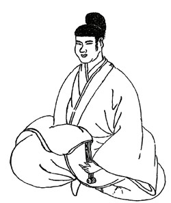 Portrait of Yi Eon Jin